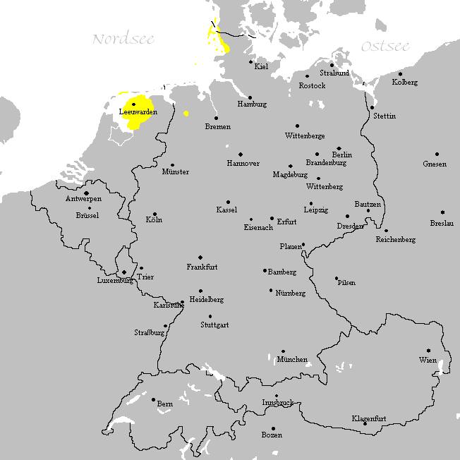 Map of the spread of the Frisian language, taken from the German Wikipedia.